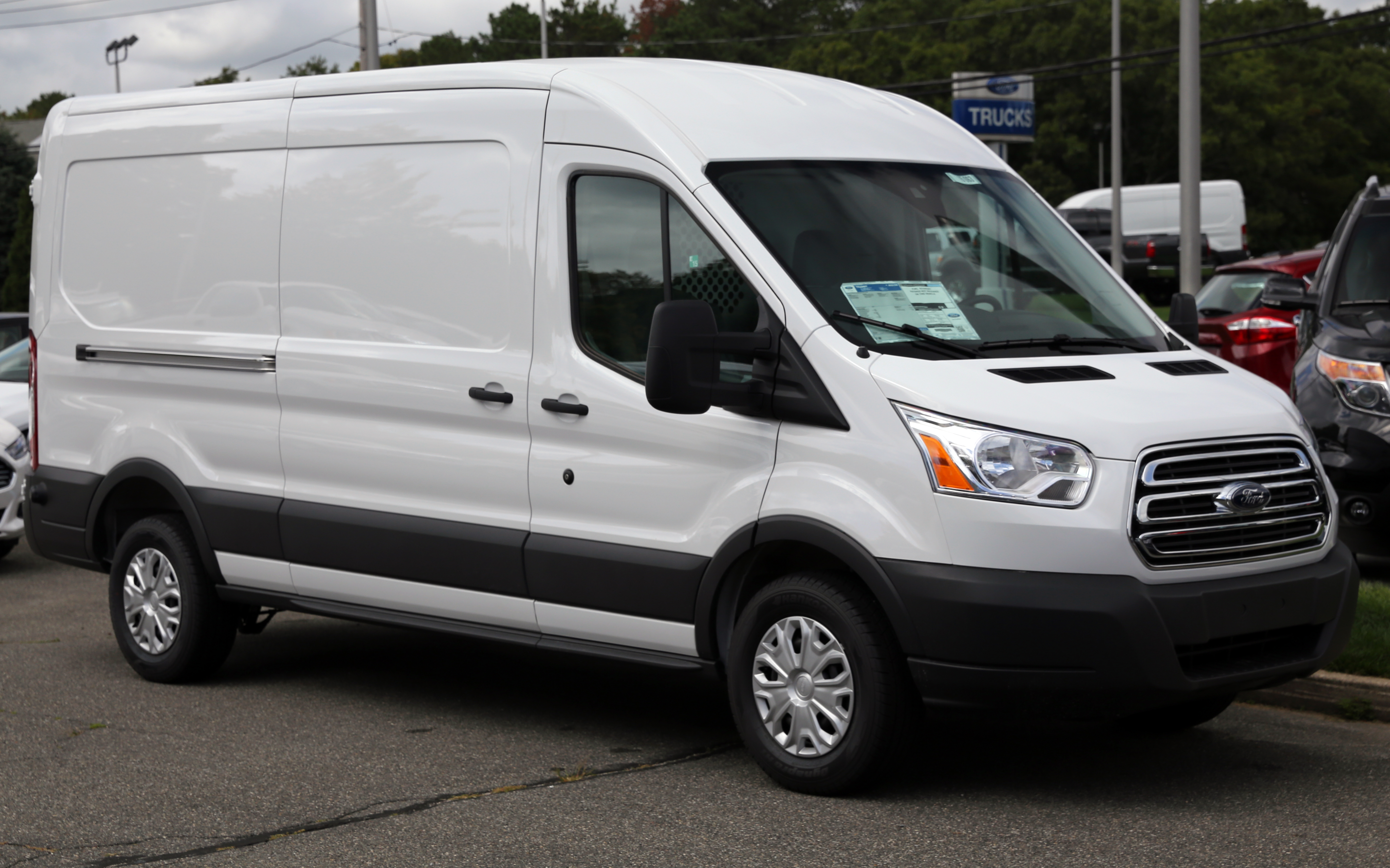 A 2015 Ford Transit 250. This is the middle roof height (of three available), on a 148" wheelbase and with the 3.7 litre Ti-VCT engine with 275hp. Oxford white and fitted with a "Preferred Equipment Package".